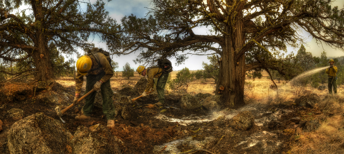 Hand and engine crews conduct mop-up operations at the Barry Point Fire to ensure there are no hotspots left. The Barry Point Fire, sparked by lightning, is located 22 miles southwest of Lakeview, Oregon, on the Fremont-Winema National Forest and private lands. For up-to-date info, notices, and maps